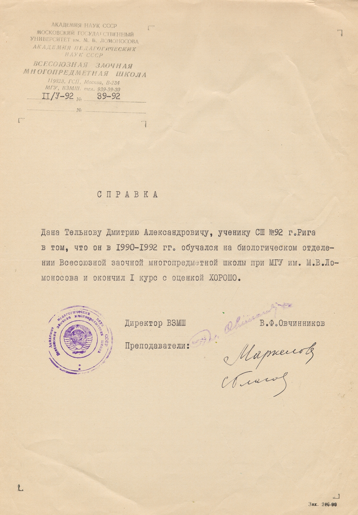 This reference certifies that Dmitry Telnov distantly studied biology at Moscow State University's Multidisciplinary distant school